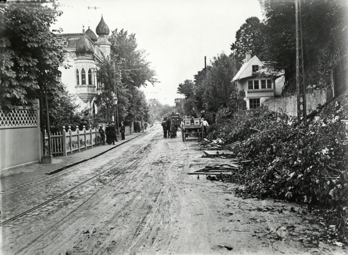 Træfældning som led i forberedelserne til pigtrådsspærringerne med Villa Hasa i baggrunden